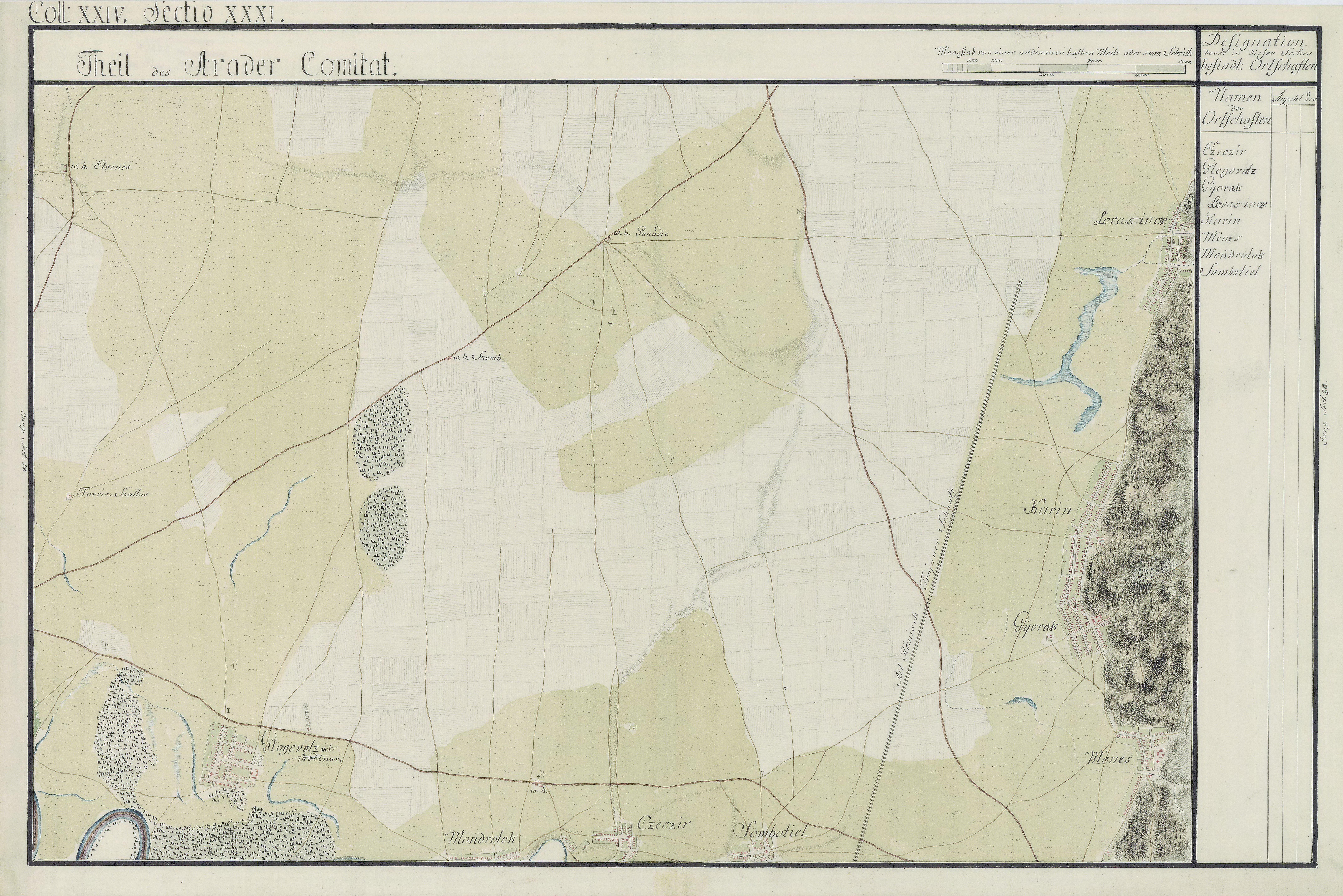 Arad County, 1782-85. Josephinische Landesaufnahme pg.24-31